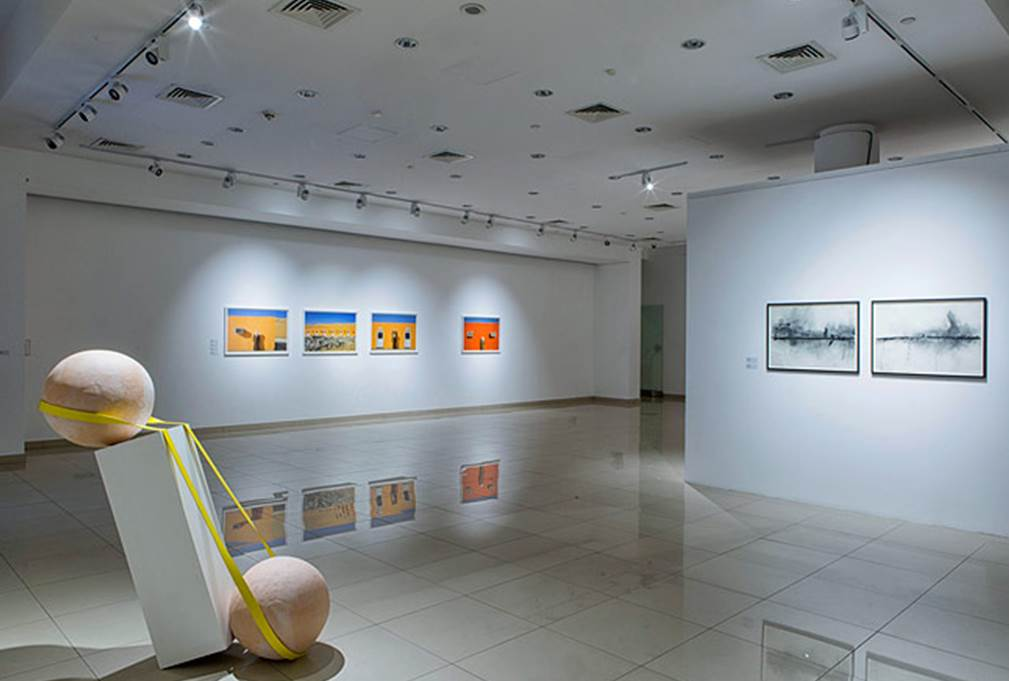 Al Mazrou is one of six young artists chosen for a new annual art exhibition to be presented under the theme and title A Public Privacy for the inaugural edition of UAE Unlimited Arab Exploration, a platform promoted by and under the patronage of Sheikh Zayed bin Sultan bin Khalifa Al Nahyan, who is an avid art collector. Each year, the exhibition will bear a new subtitle and this year A Public Privacy opens at Dubai Community Theatre & Arts Centre, where new works by a group of emerging Emirati, locally based and GCC artists, will be presented.